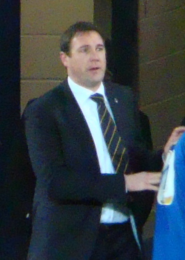 Malky Mackay at Cardiff Jan 2, 2012. Cropped.